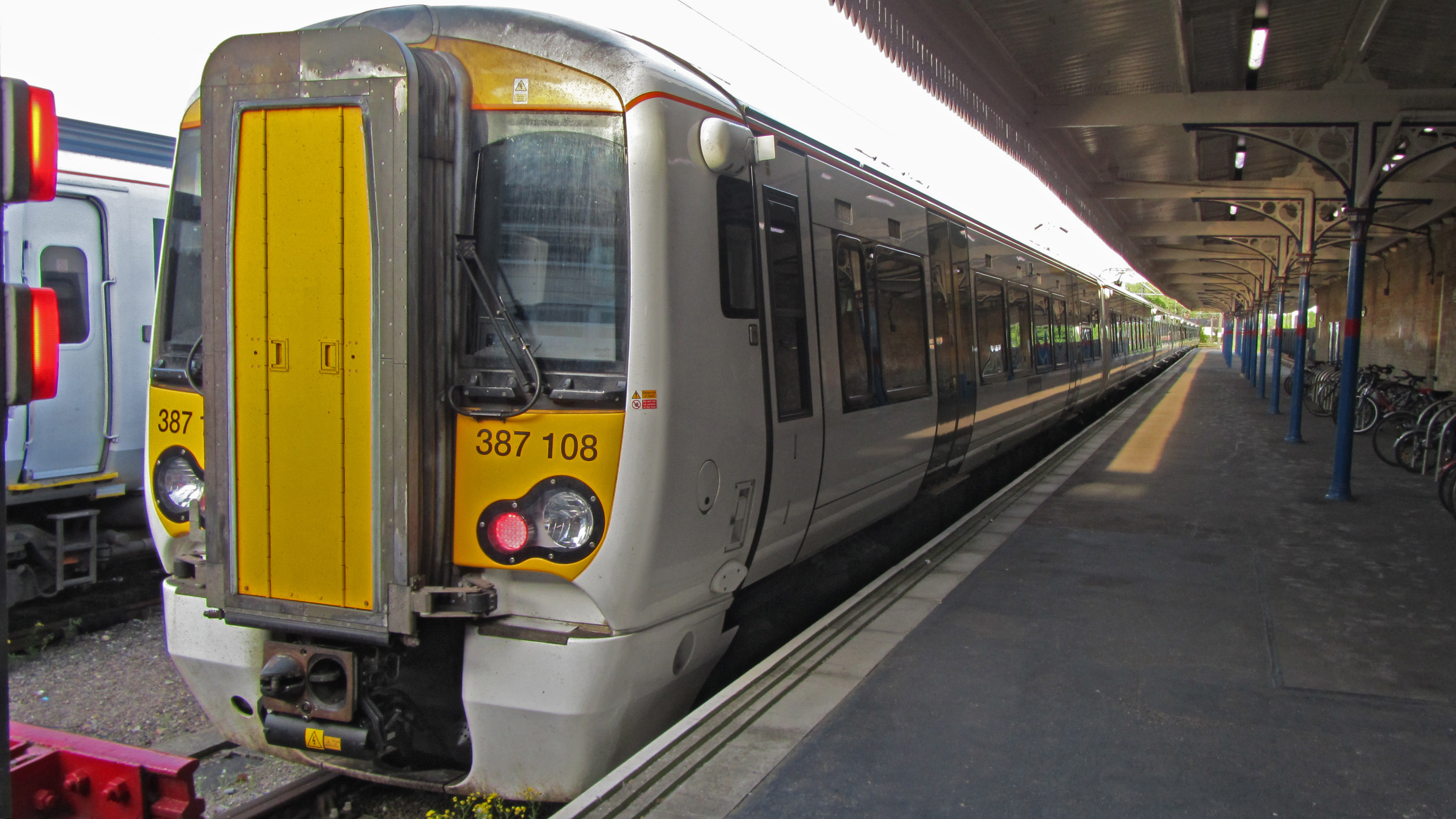 387108 stabled in the parcel bay at Kings Lynn on the first day that Class 387s operated on the Fen line